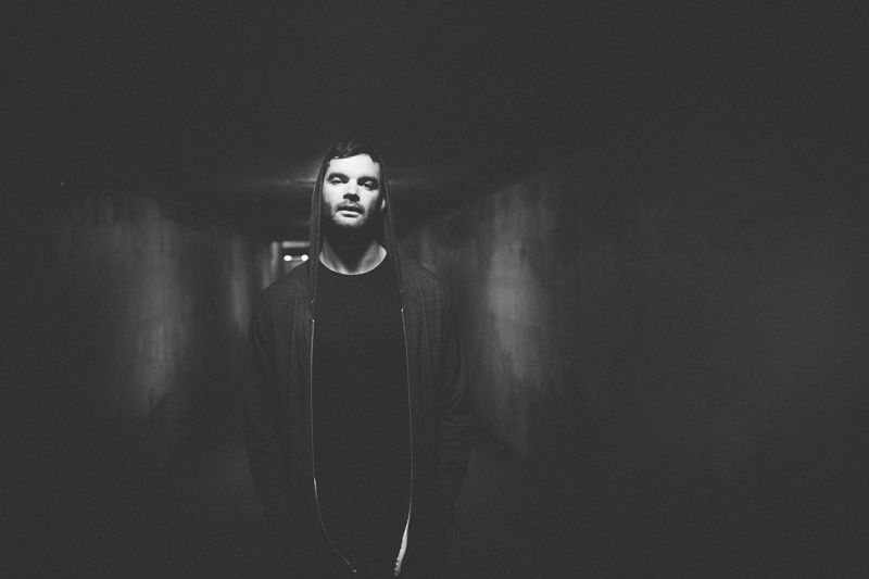 loston in Los Angeles 2015